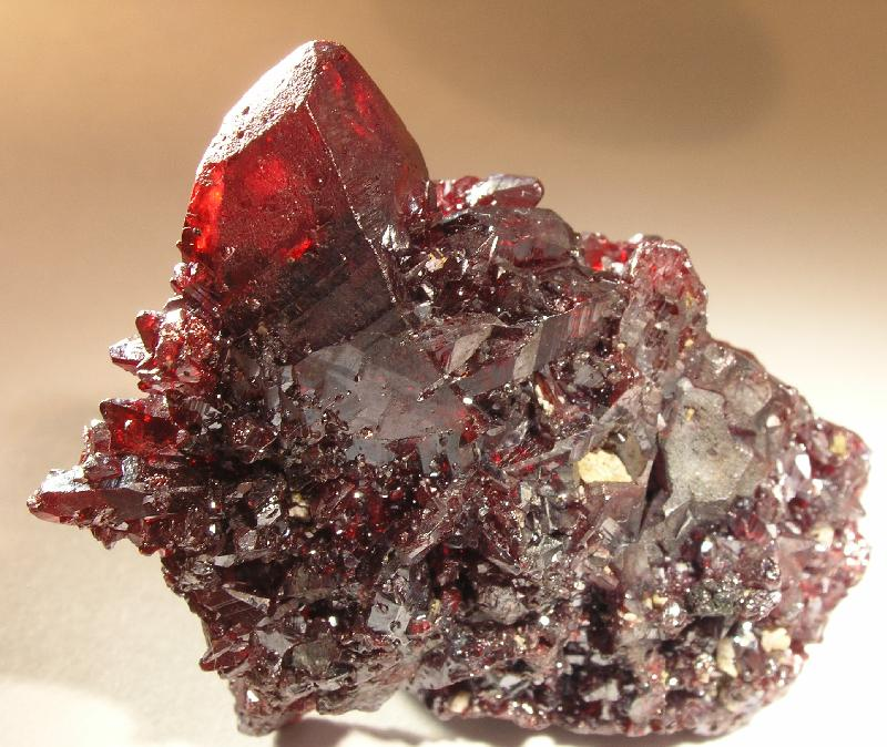 Proustite Locality: Freiberg, Freiberg District, Erzgebirge, Saxony, Germany (Locality at ) Size: miniature, 4 x 3.3 x 1.1 cm Proustite A classic cluster of intergrown crystals with one large dramatic crystal perched in the middle. The crystals have the desirable cherry-red color and an attractive metallic luster you would want in a proustite from ANY locality - but a good old German piece is more rare than anything from Chanarcillo, even. This rare mineral is hard to find in specimens so attractive and well-balanced. Truly oustanding piece! 4 x 3.3 x 1.1 cm